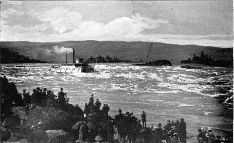 photograph of sternwheeler Hassalo running the Cascades Rapids, May 26, 1881